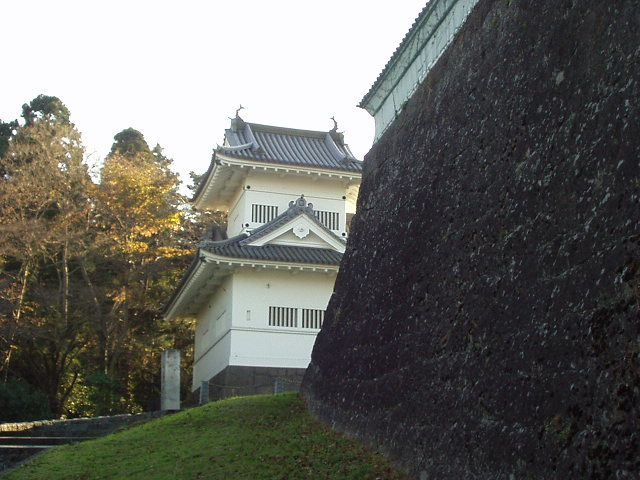 Corner Tower of the Main Gate of the Sendai Castle. Sendai, Miyagi prefecture, Japan.